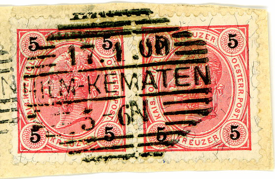 5 kreuzer Klein gSje 649 cancelled 1900 (Lower Austria)